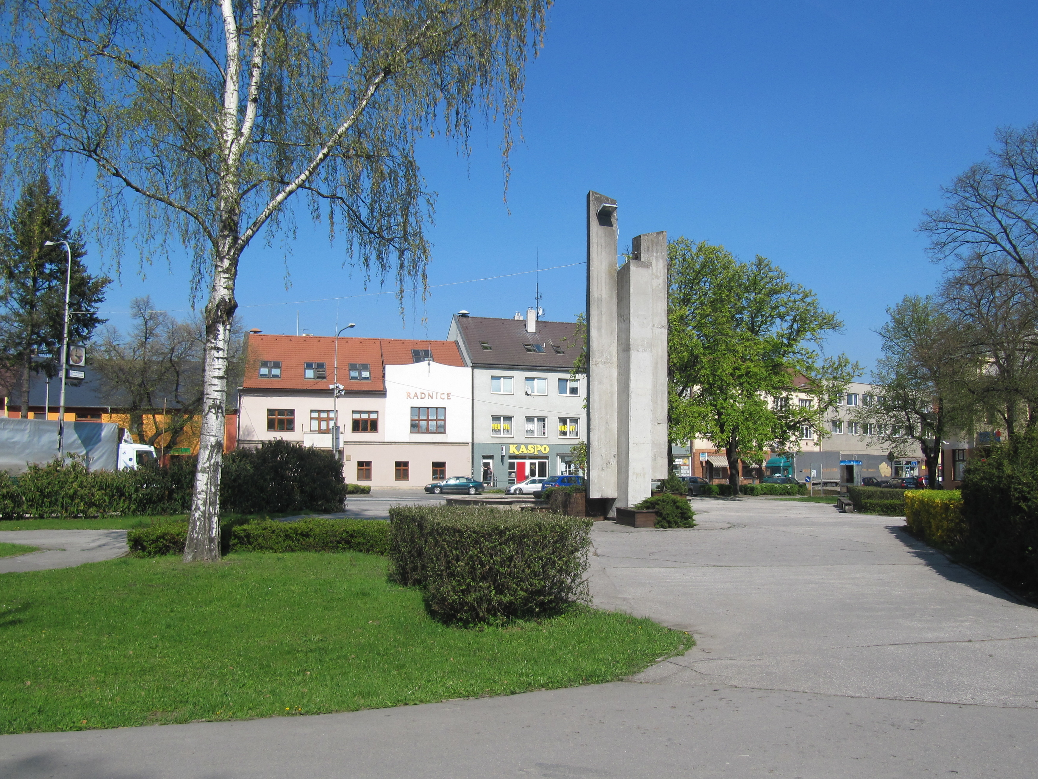 Hulín in Kroměříž District, Czech Republic. Square Námestí Míru.